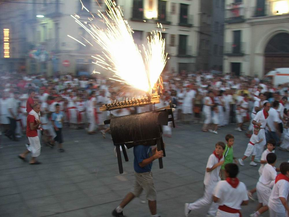 picture of the Fiesta of St. Anna in Tudela, Navarra, Spain